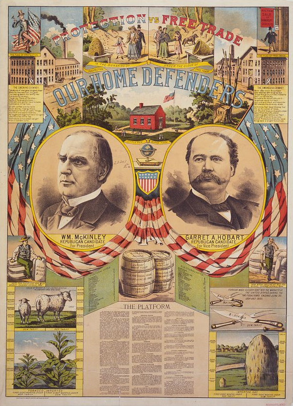 "Our home defenders": Republican Party presidential campaign poster shows head-and-shoulder portraits of William McKinley holding U.S. flag and standing on the gold coin of "sound money," held up by a group of men in front of the ships "commerce" and the factories "civilization." The print was intended to show the beneficial aspects of the Republican Party protectionist policy compared to the detrimental impact of the Democratic Party's free trade policy.